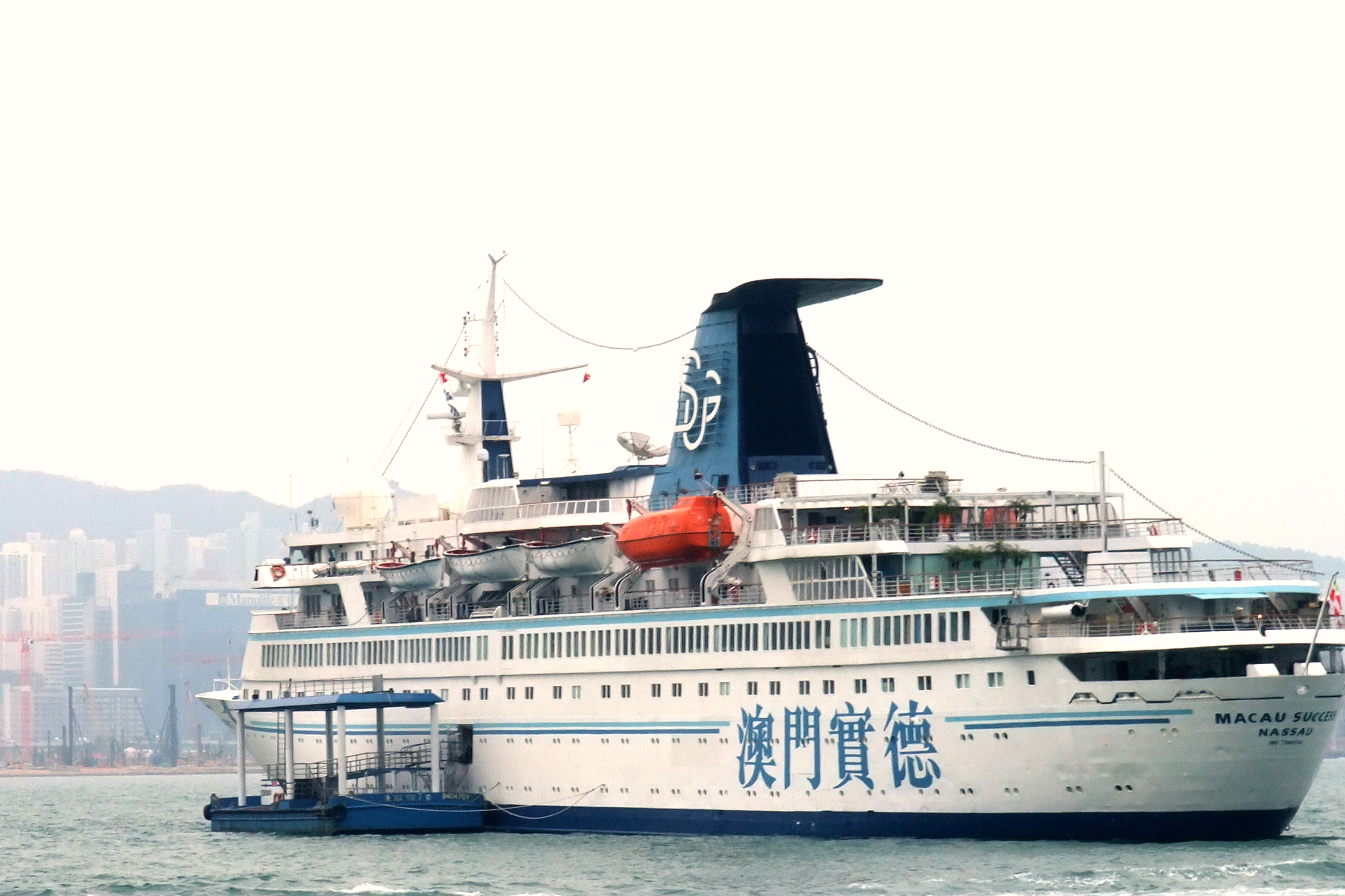 A nine-deck cruise ship - the M.V. Macau Success anchored in Hong Kong's Victoria Harbour.中文（香港）: 澳門實德郵輪